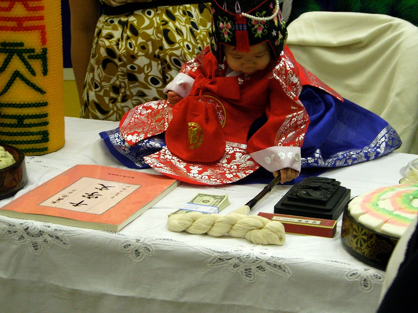 Dol, Korean traditional way of celebrating a birth day of one-year-old baby.